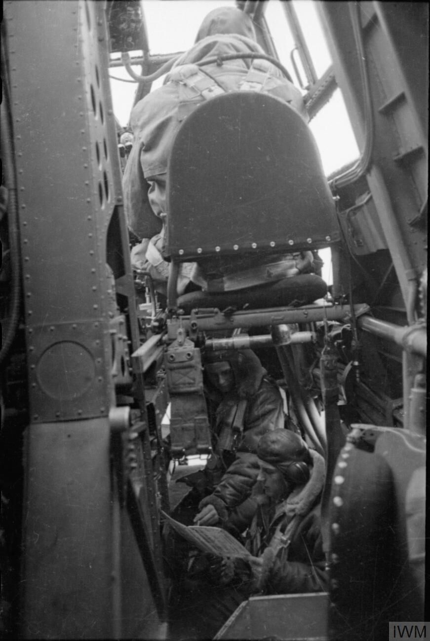 Interior of a Handley-Page Halifax B Mk II Series I of No. 35 Squadron RAF, looking forward from the flight engineer's in-flight position, prior to take-off from Linton-on-Ouse, Yorkshire. We see here the flight engineer sitting on the fold-down "dicky" seat on the right of the pilot, which was the flight engineer's usual position on takeoff so he could assist the pilot with the throttles, which were between them. Below the flight engineer can be seen the navigator at his position with the front gunner alongside him.